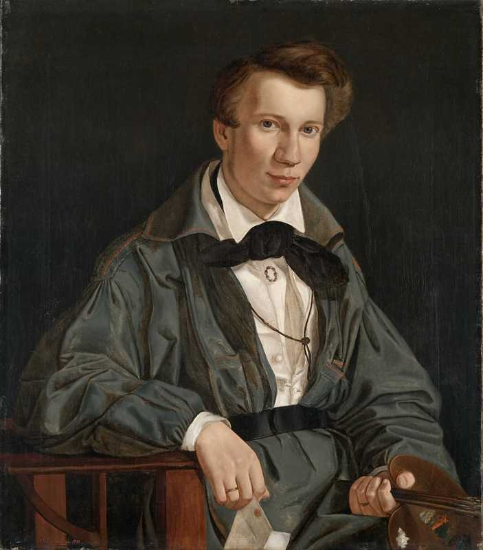 Portrait of painter Joachim Christian Geelmuyden Gyldenkrantz Frich.